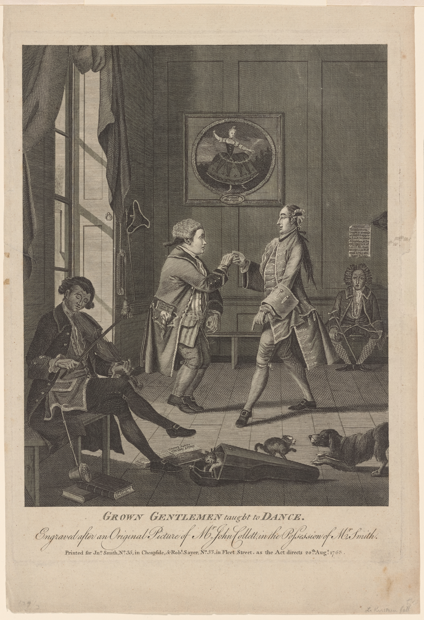 Grown gentlemen taught to dance: engraved after an original picture of Mr. John Collett, in the possession of Mr. Smith